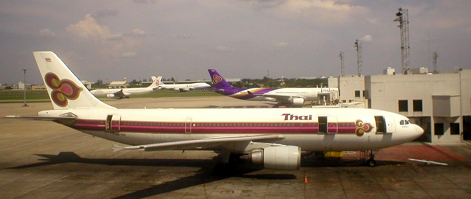 Thai Airways Airbus A300-600 in Bangkok Airport